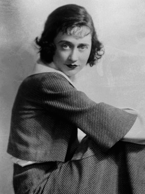 Lee Morse, circa 1927